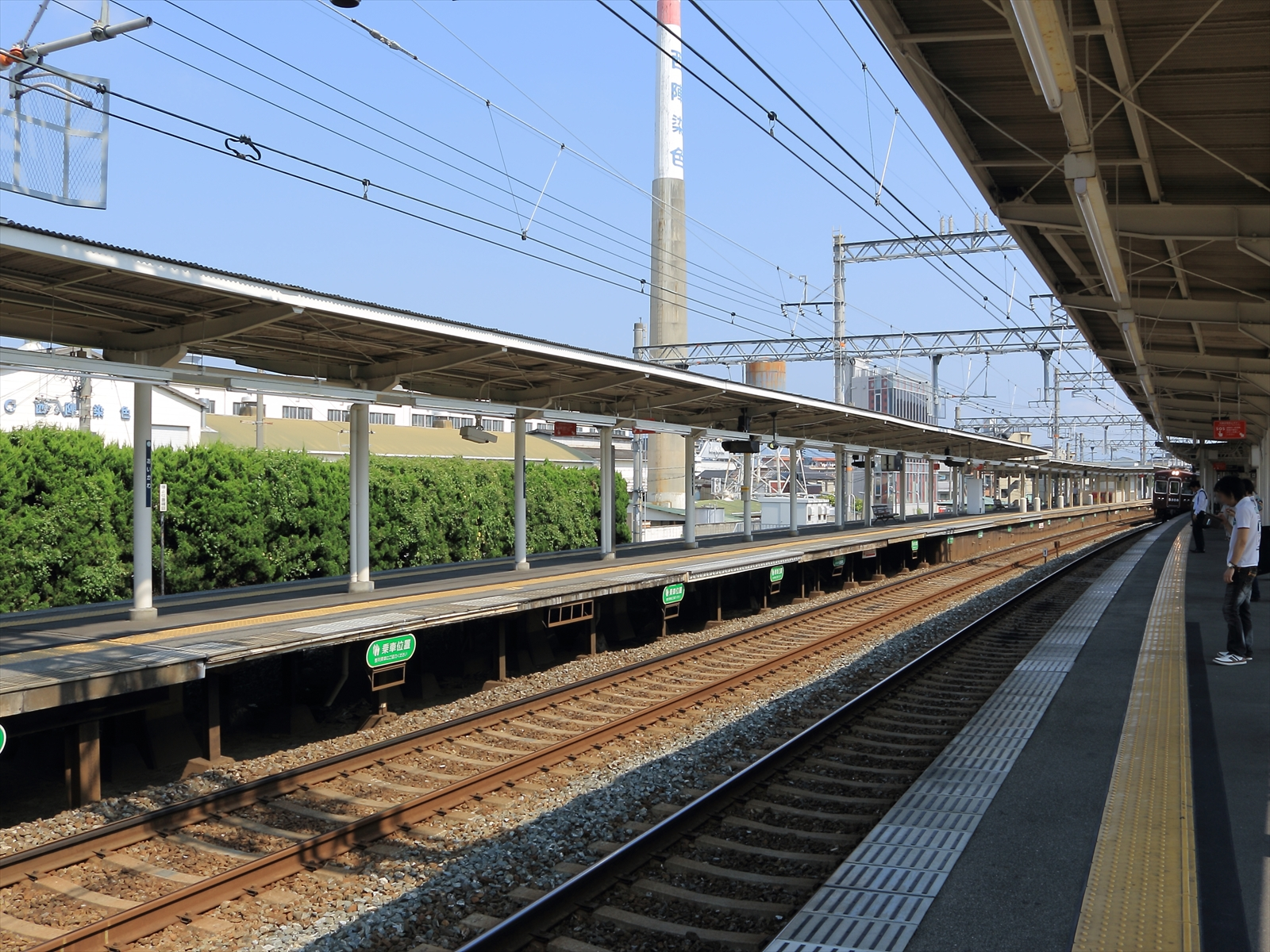 Platform from Aikawa Station.